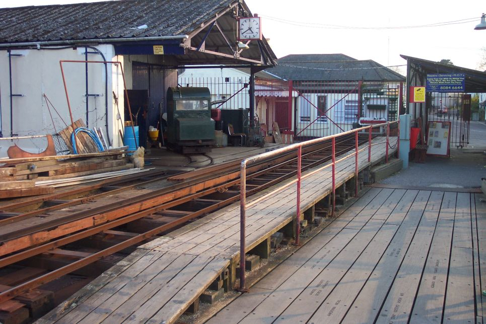 Landward Station and Railway Depot, Hythe Pier, in the English county of Hampshire. For more information see the Wikipedia article Hythe Pier, Railway and Ferry.